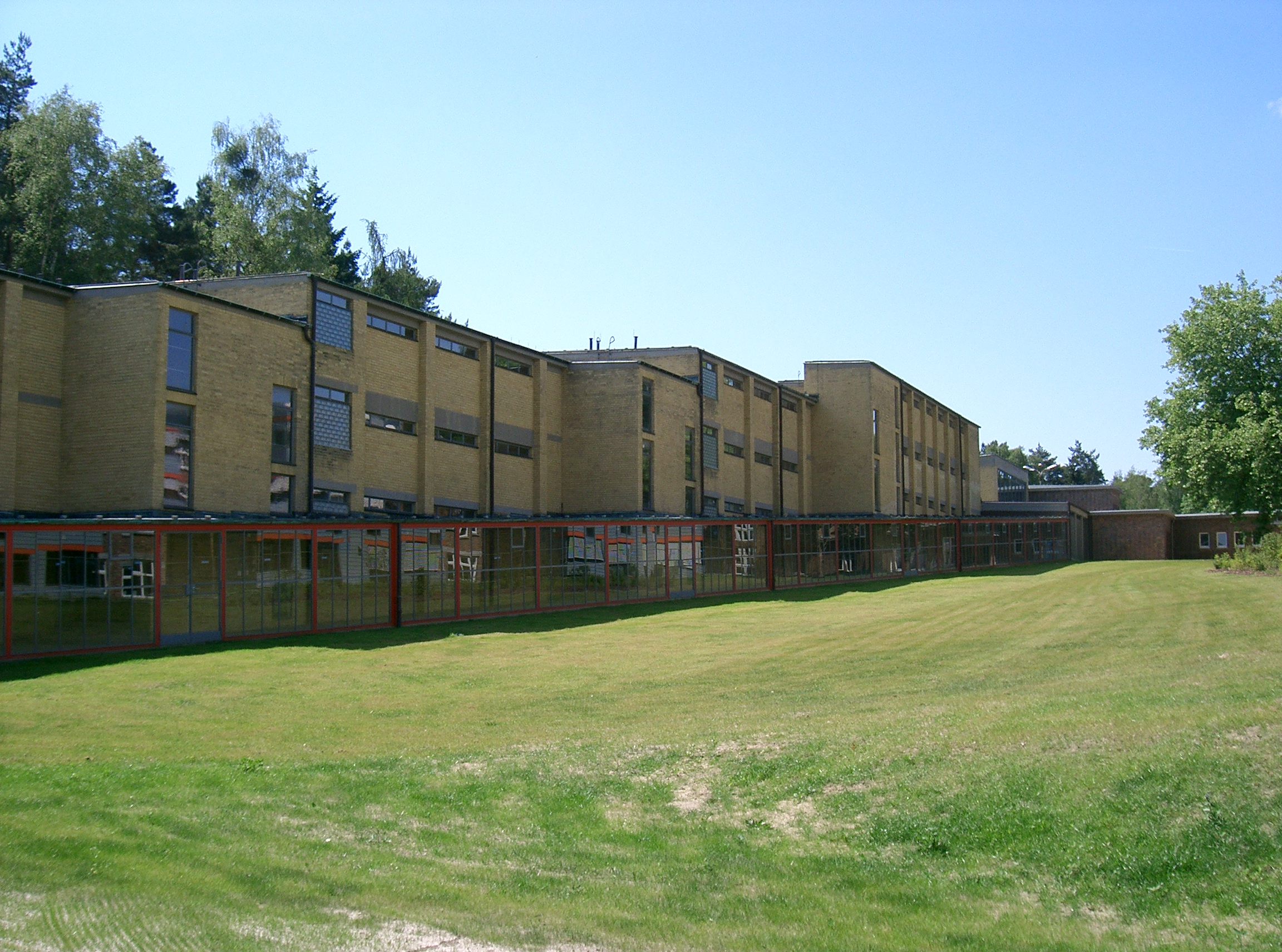 Building complex of the former federal school of the Allgemeinen Deutschen Gewerkschaftsbundes (engl. General German Confederation of Trade Unions) in Bernau bei Berlin. Here the student halls (back side).